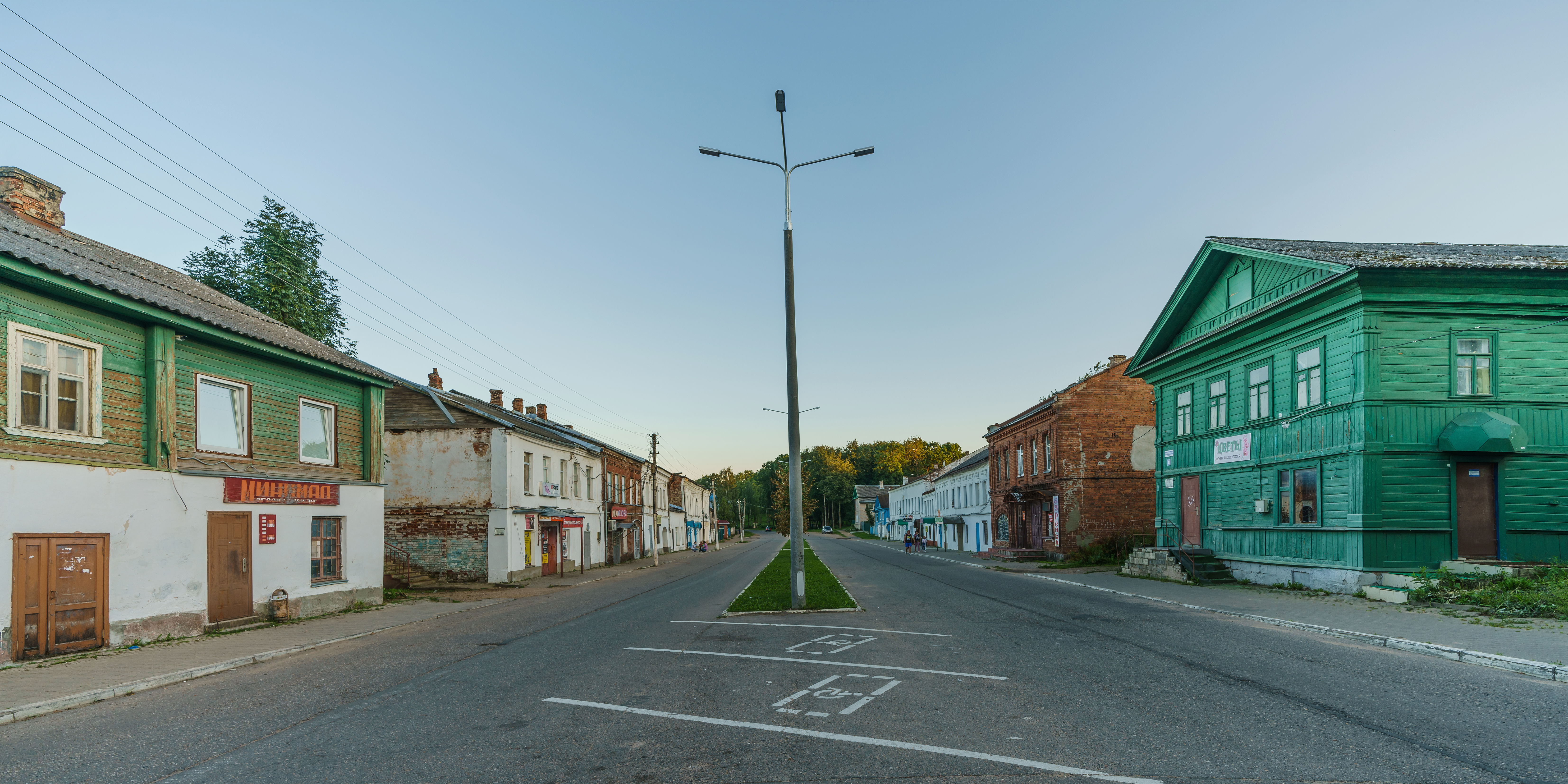 View of Narodnaya Street in Valdai, Novgorod Oblast, Russia